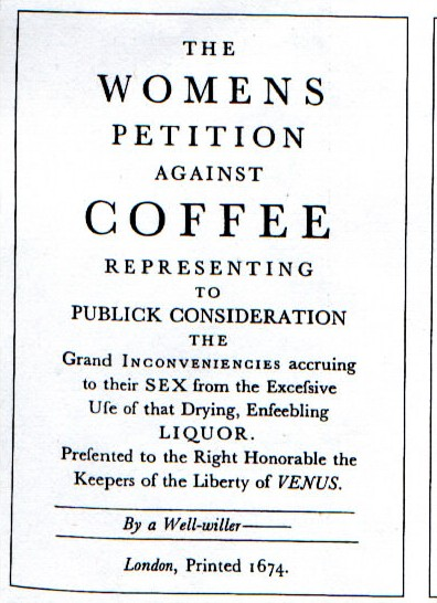 Womenspetitionagainstcoffee